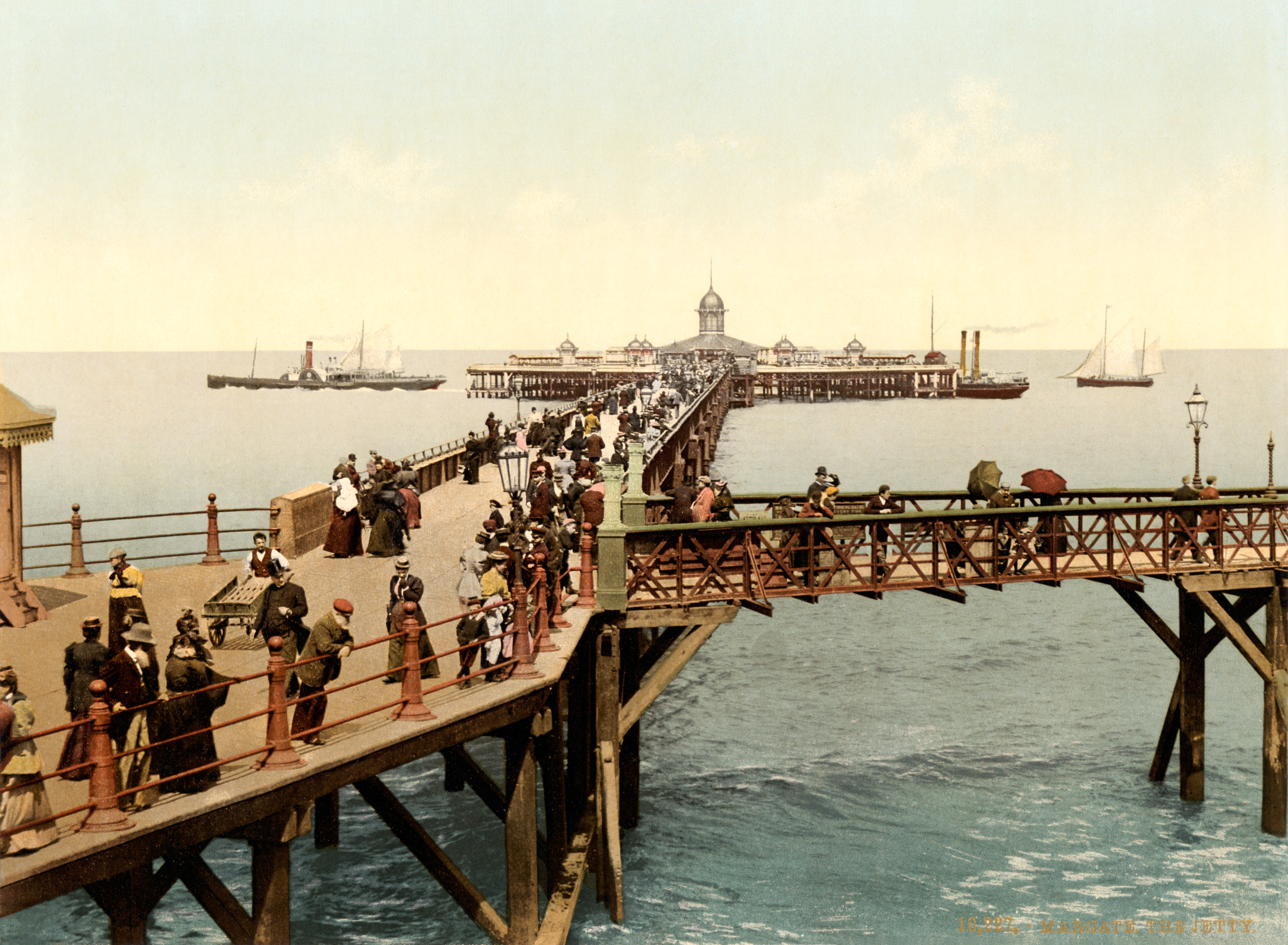 10227 Margate, Kent, England, the jetty.